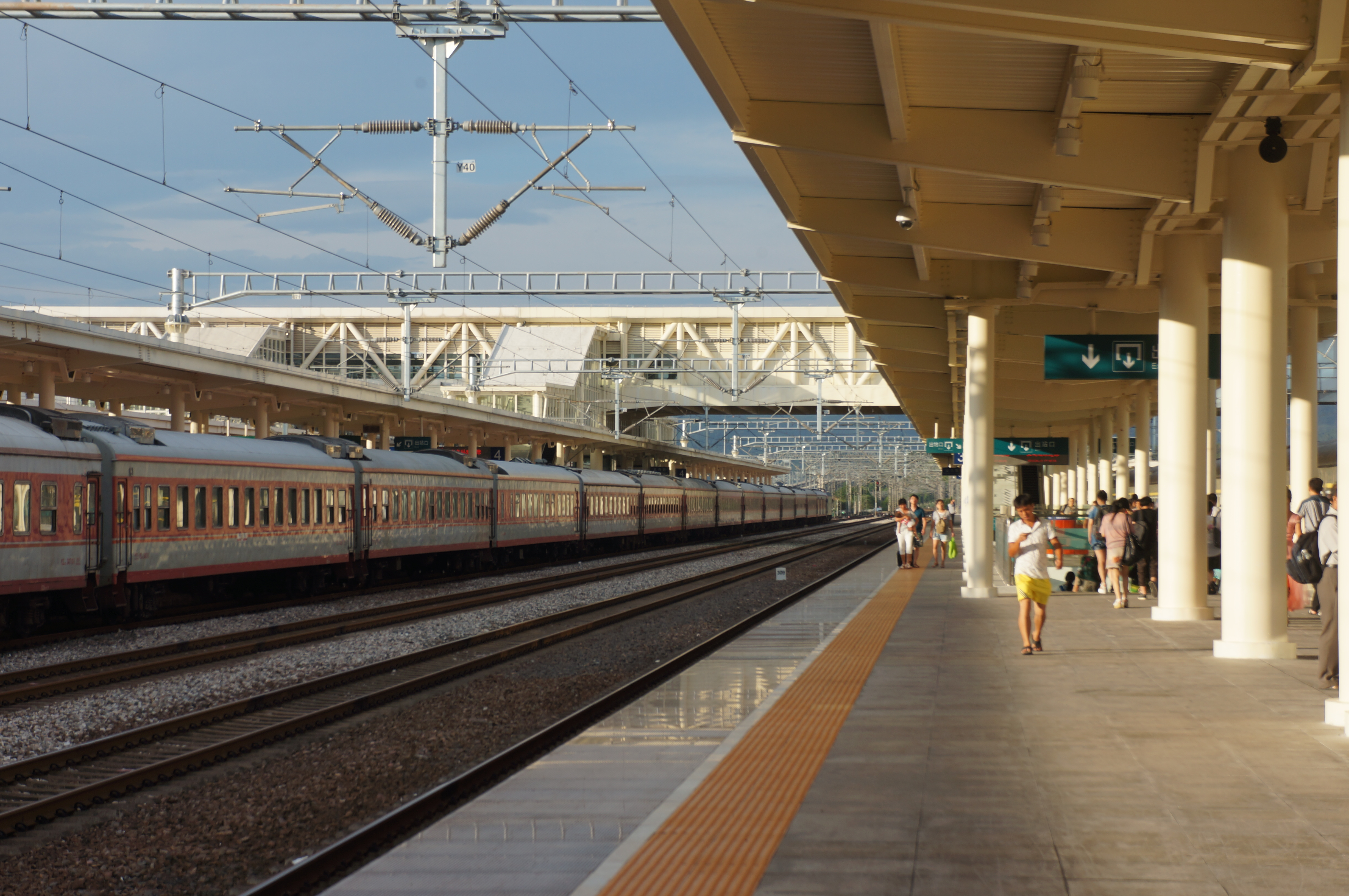 201608 coaches of K102 at Yiwu Station, still full-red coaches